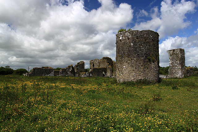 Ballybeg Priory The priory was founded in 1229 by Philip de Barry for the Canons Regular of St Augustine, and dedicated to St Thomas. The complex consisted of a central cloister or courtyard surrounding the now ruined church building. Near the church and in the foreground of this photo is one of the finest dovecotes in Ireland.